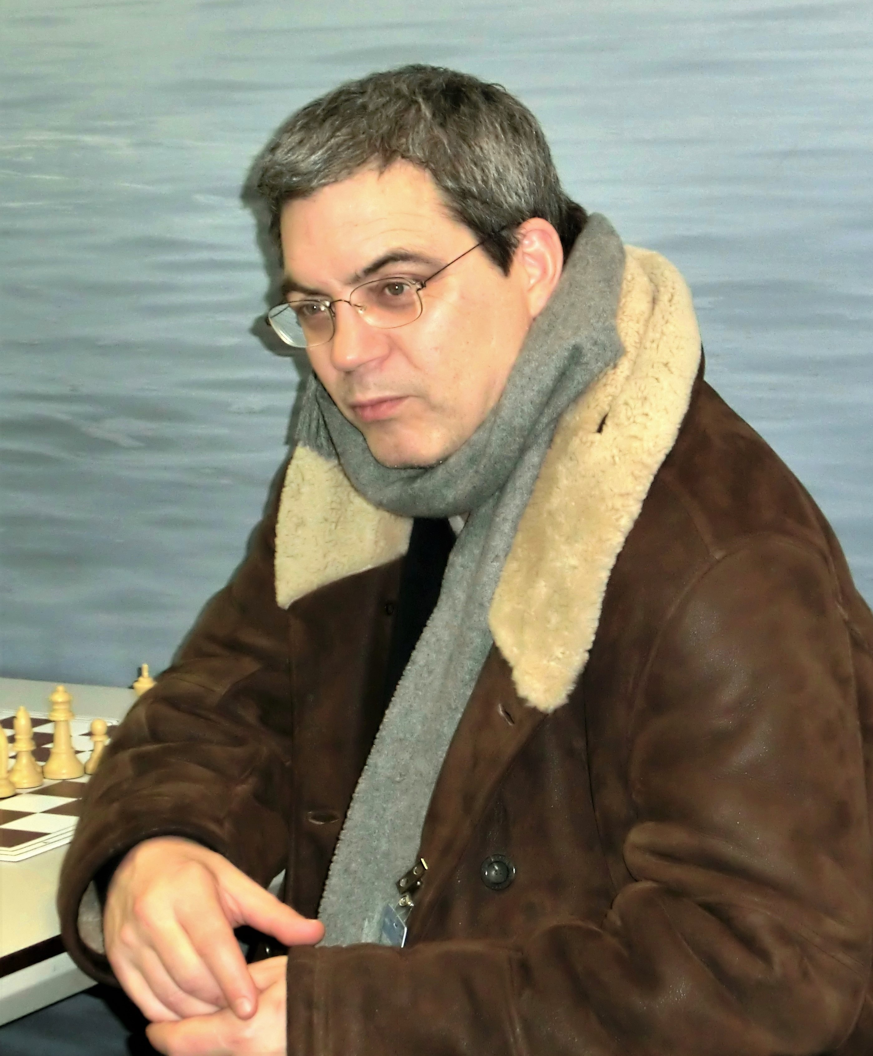 Eric Lobron, chess grandmaster from Germany